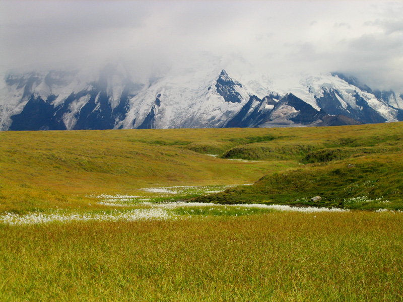 Erin McKittrick, Ground Truth Trekking, own work